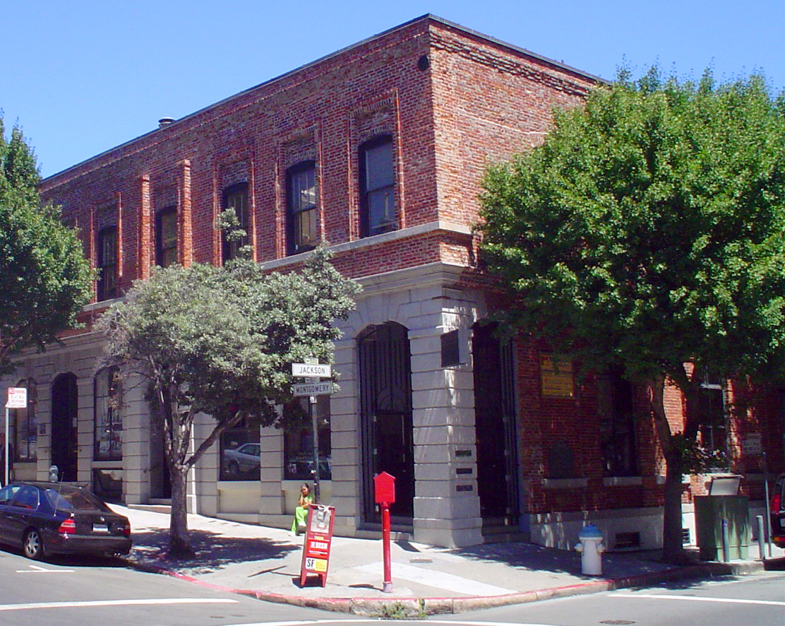 Former Lucas, Turner & Co. Bank Building on the northeast corner of Jackson and Montgomery Streets, San Francisco, CA. William Tecumseh Sherman established a branch of this bank in San Francisco in 1853 and settled the firm in this building in the spring of 1854. There he successfully carried the bank through the financial crisis of 1855 and remained until it discontinued business in 1857.